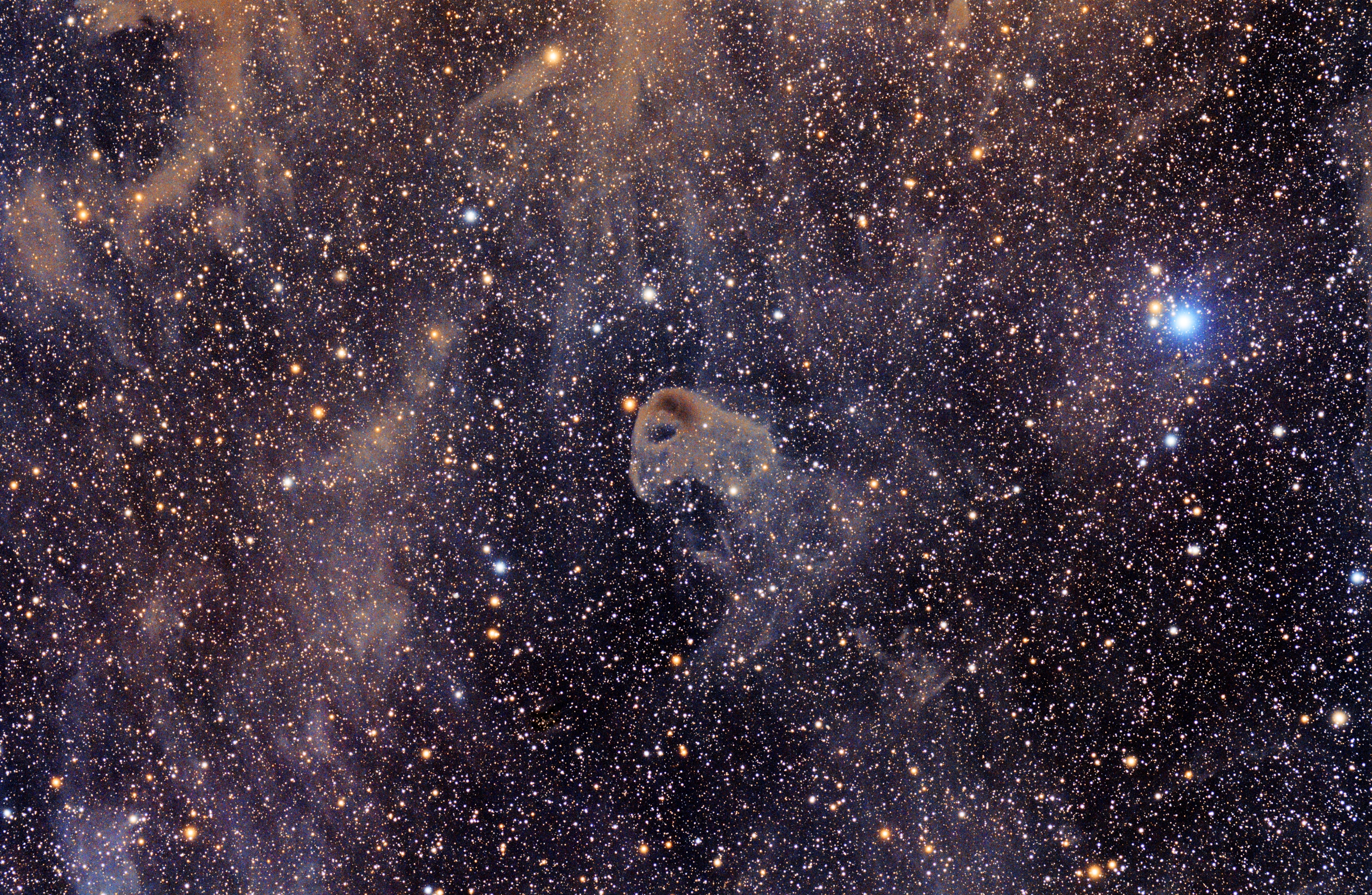 The Baby Eagle is "looking" at the Seven sisters of the Plejades (M45) just outside this field of view at the lower-left corner. The dark dusty nebulosity is enhanced by the 10 hour exposure time. Esprit 100 f5.5 APO refractor/ Canon 6Da/ Optolong L filter. 20x120 iso 400, 78x300 and 44x240 iso1600. Stacked in DSS (2 stacks) and processed in Pixinsight (with HDR composition)